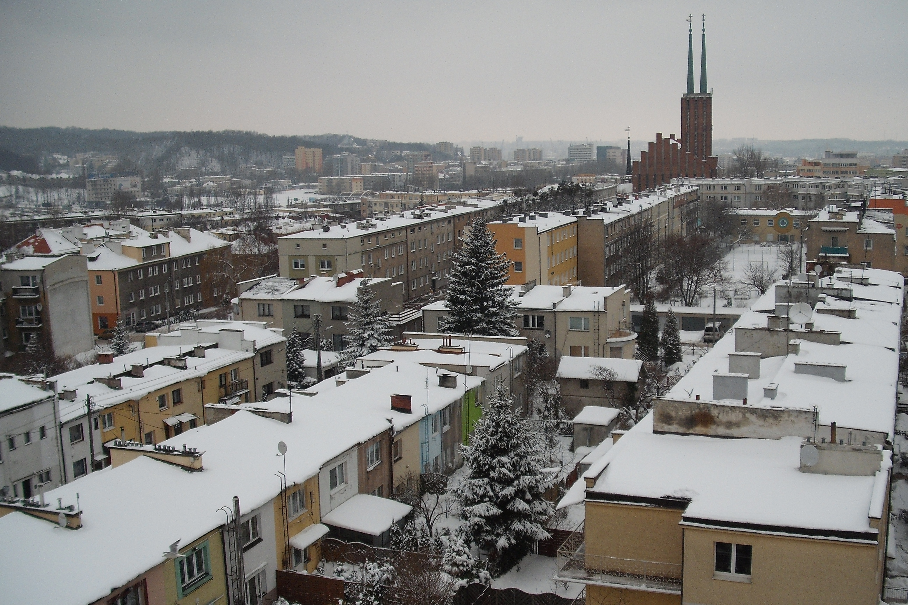 Gdynia Wzgórze, view towards St. Anthony church and the city centre; note harbour cranes in the background